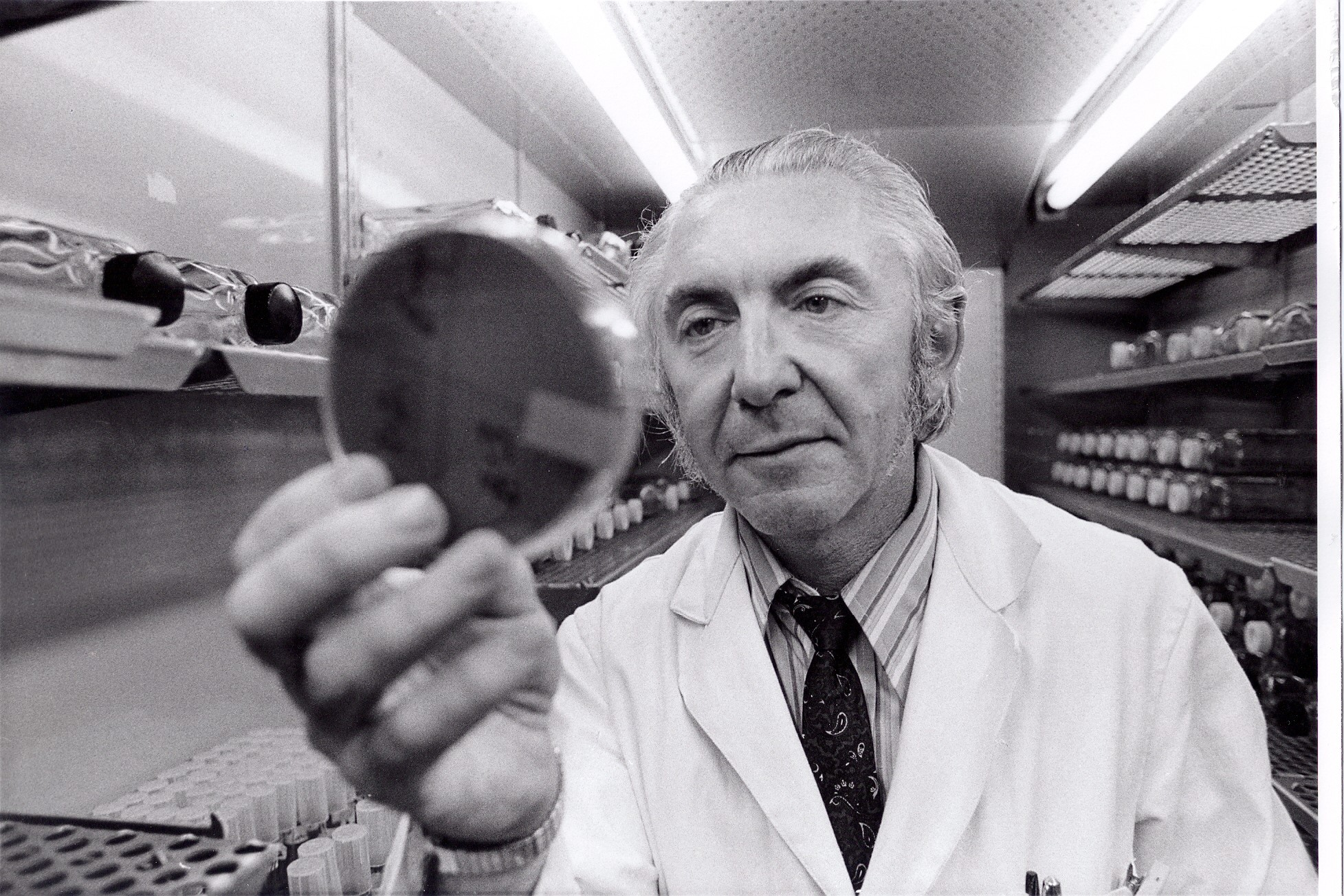 s